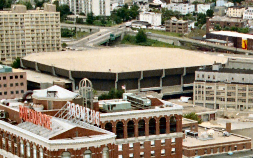 The Providence Civic Center/The Dunkin' Donuts Center/The Dunk (1972–2001) - 101 Sabin Street - Detail. Photo taken by Will Hart on 20-August-1990 from the roof of One Financial Plaza. See and hear more Lovecraftian Items at the sister sites to these Flickr collections at: and